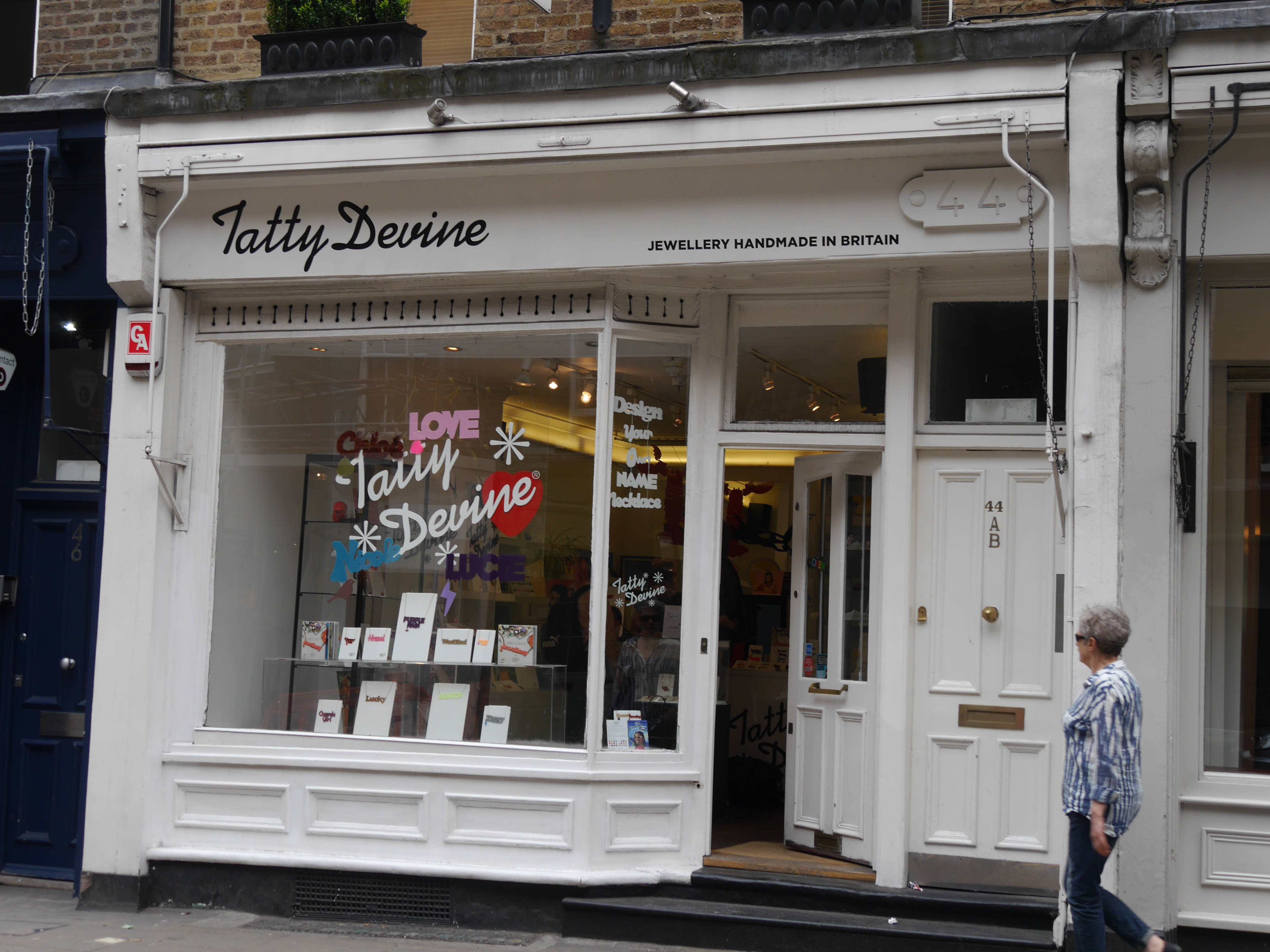 Monmouth Street, Covent Garden